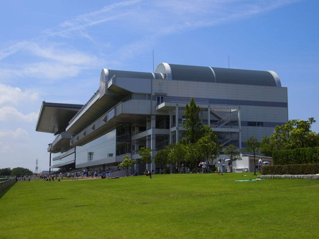 Niigata Racecourse